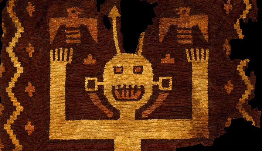 Ocucaje Shirt with Figure (detail), Paracas culture, Southern Andes, wool loop knit, c300 AD, 0.70 x 0.60 m. Paul Hughes Collection. A special exhibition of ancient Andean textiles will be on show at The Whitworth Museum (UK) from 29 March-15 September 2019. 'Ancient Textiles from the Andes’ presents a rare opportunity to see a large number of outstanding Andean textiles in the UK. Through a major loan from the collector Paul Hughes, alongside pieces from The Whitworth, textiles from circa 300 BC to circa 1400 AD will be on display. As well as celebrating achievements in textile technique and design, this show explores the complexities of their transition from local ritual to a wider international stage. Vitally, acknowledging the human origins of these objects (from tombs and often from bodies themselves) they are part of a programme of debate about ethics, how objects are contextualised and the impact of conservation on how we understand them.